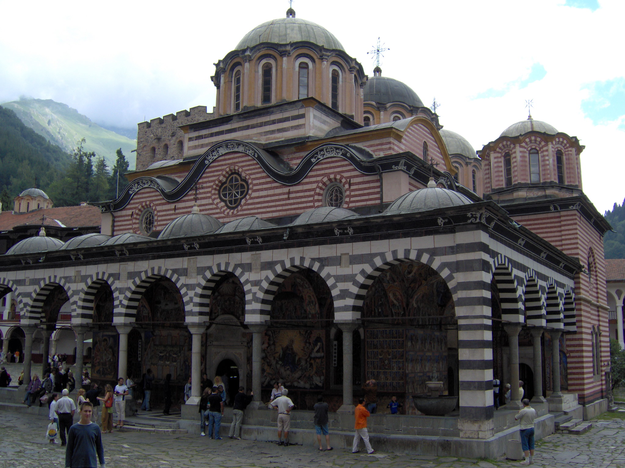 Main church of the Rila Monastery.